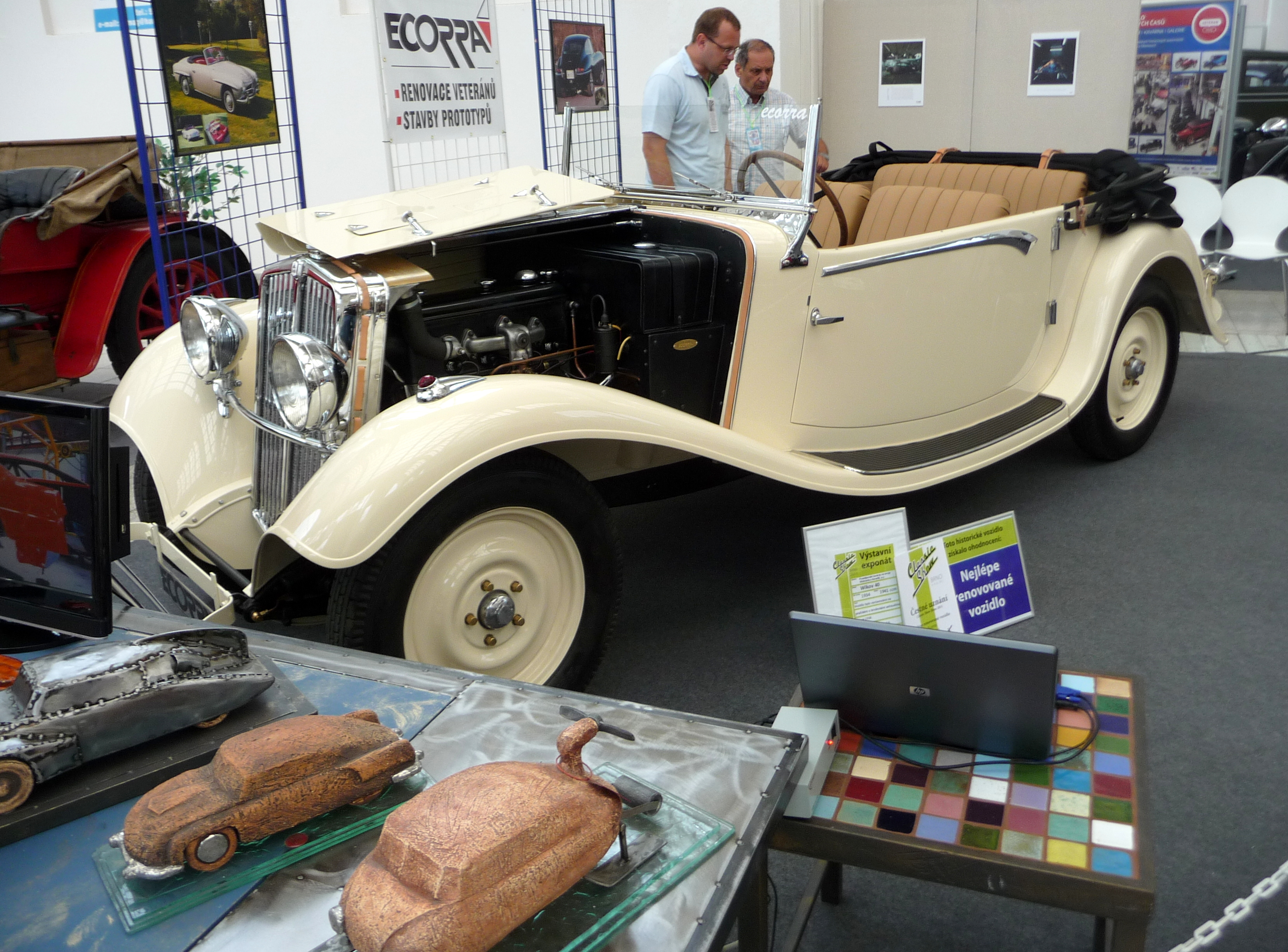 Wikov 40, year 1934, Classic Show Brno 2011, The Brno Exhibition Grounds -10 -5 -3 -2 ◄ ► +2 +3 +5 +10